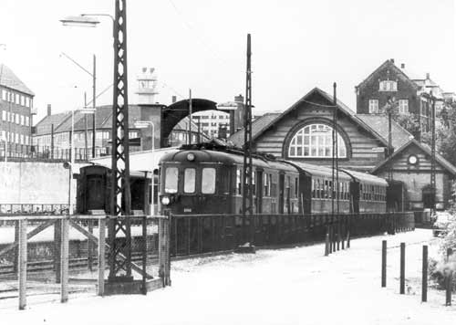 Lyften Station in Copenhagen, Denmark